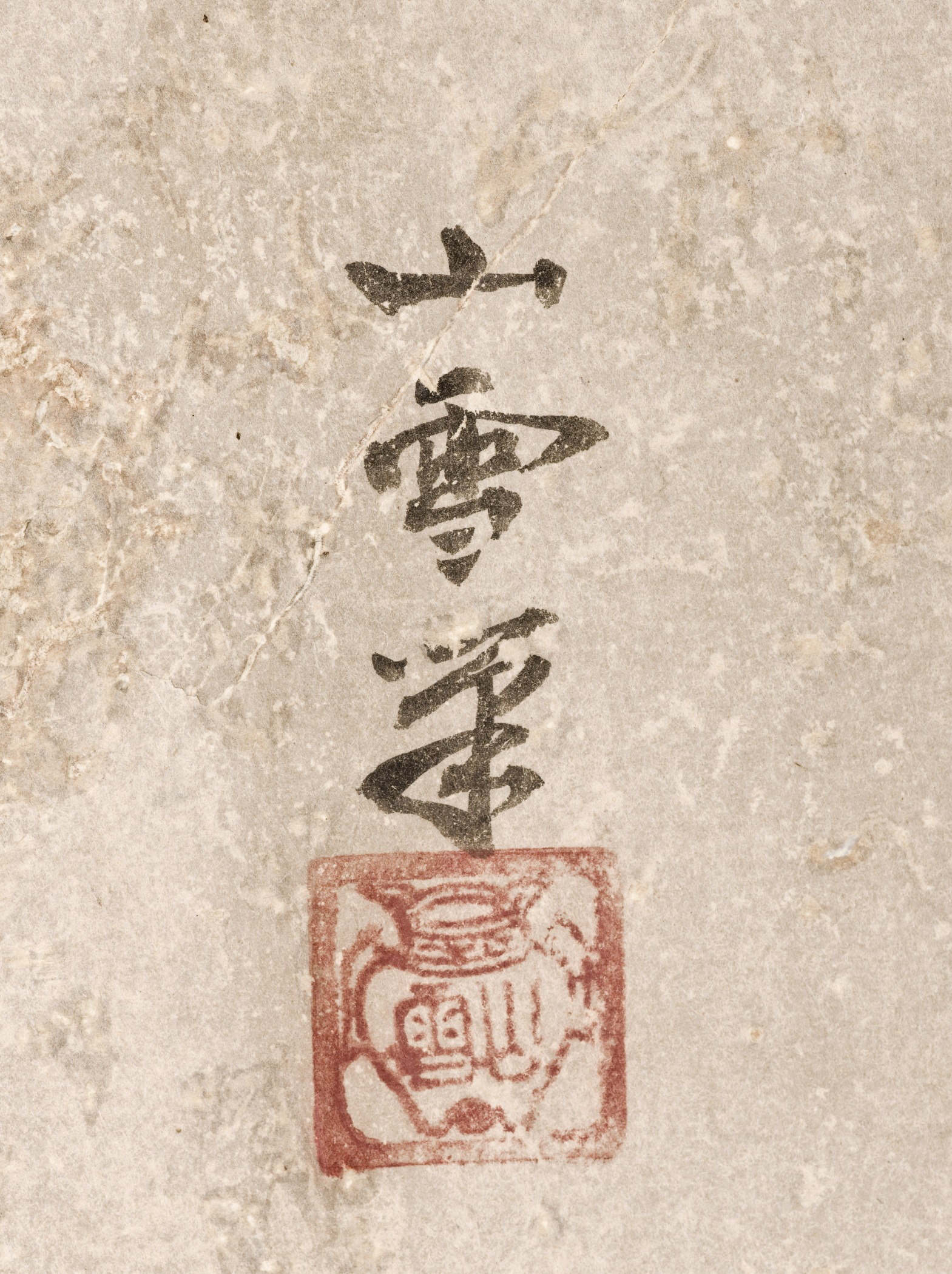 circa 1640 Paintings; screens Two-panel folding screen; ink on paper Gift of the 2010 Collectors Committee (M.2010.34) Japanese Art